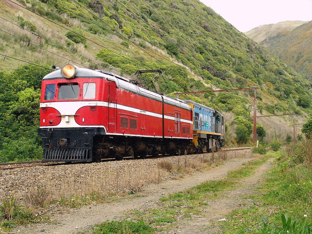 EW 1805 with DC 4611 near Paekakariki, New Zealand - 21 August 2005. Photo by: Alan Wickens.